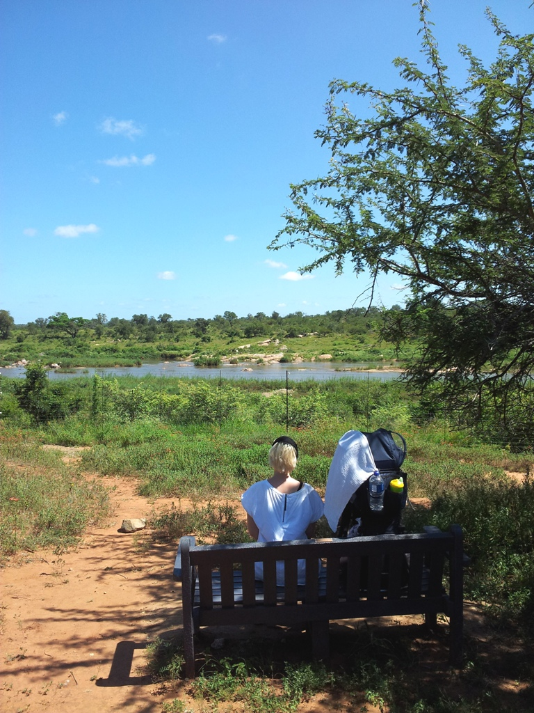 Entlang des Crocodile Rivers kann man im Marloth Park durch den afrikanischen Busch spazieren und über den Kruger Nationalpark sehen.